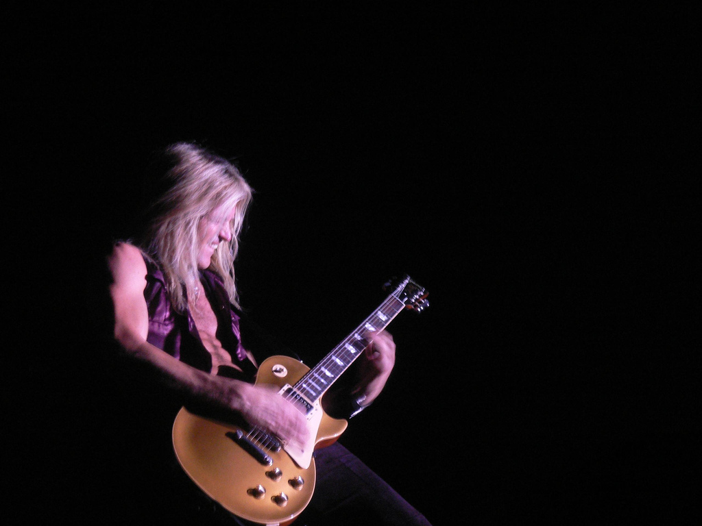 Doug Aldrich performing live